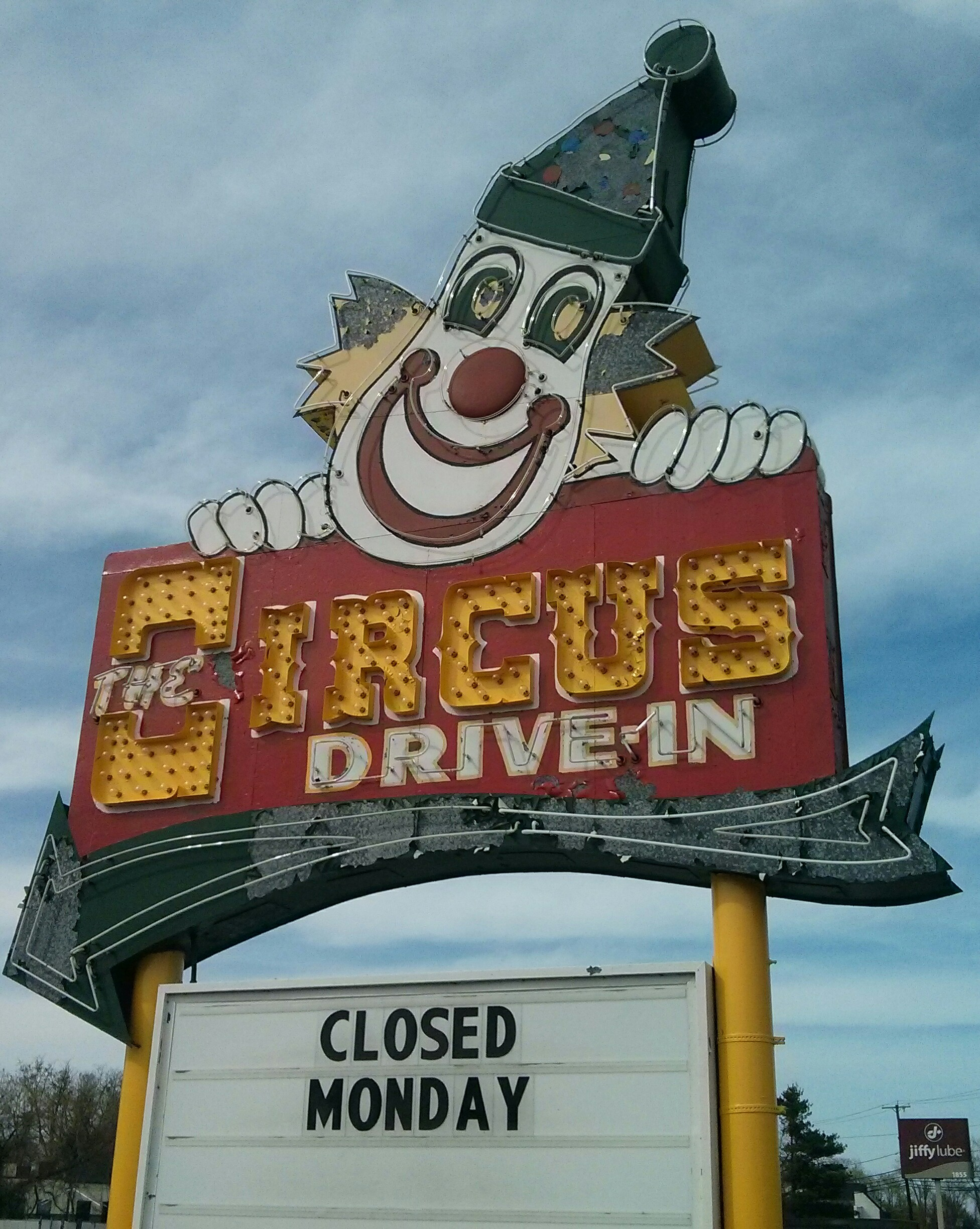 Jersey Shore favorite since 1954